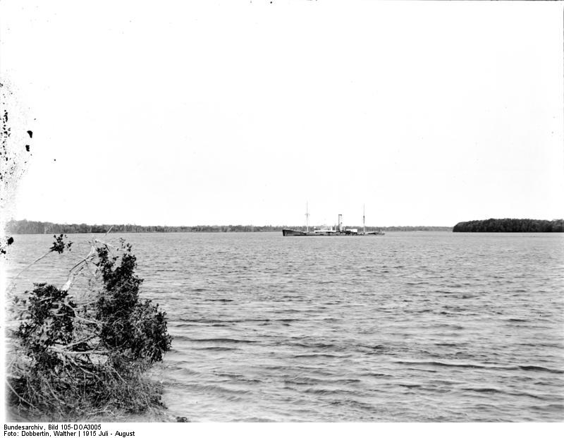 Königsberg's supply ship Somali